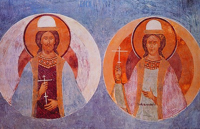 Boris and Gleb (Dionisius, 1502–1503)